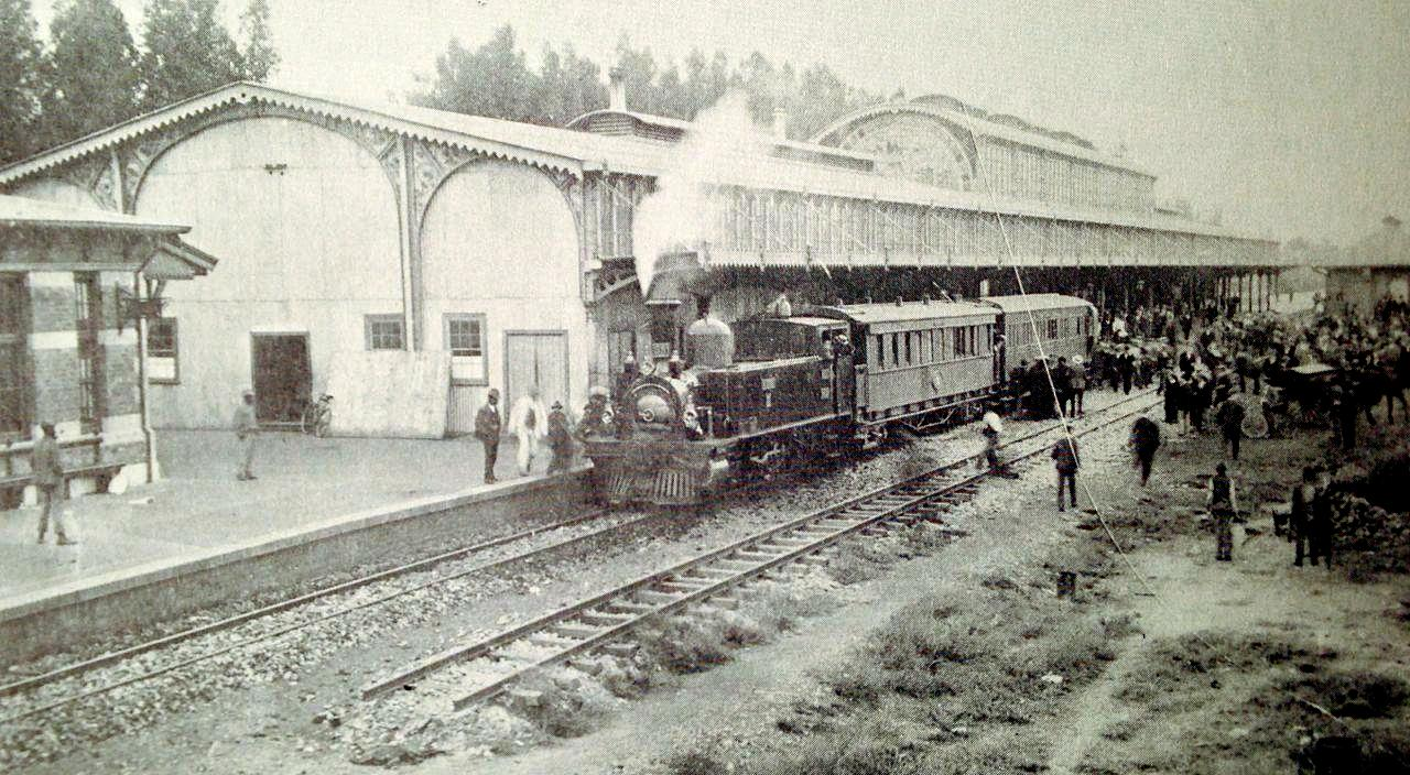 North-eastern view of the covered Platform of the Johannesburg Park Station on the Rand Tram line from Johannesburg to Boksburg in the year 1897. Copy from glas plate